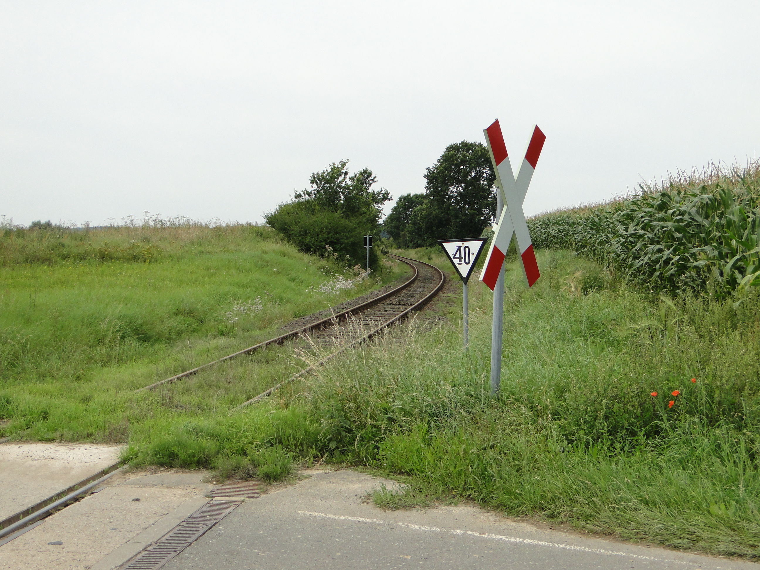 Railway line Neubrandenburg-Friedland at level crossing in Pleetz, district Mecklenburg-Strelitz, Mecklenburg-Vorpommern, Germany